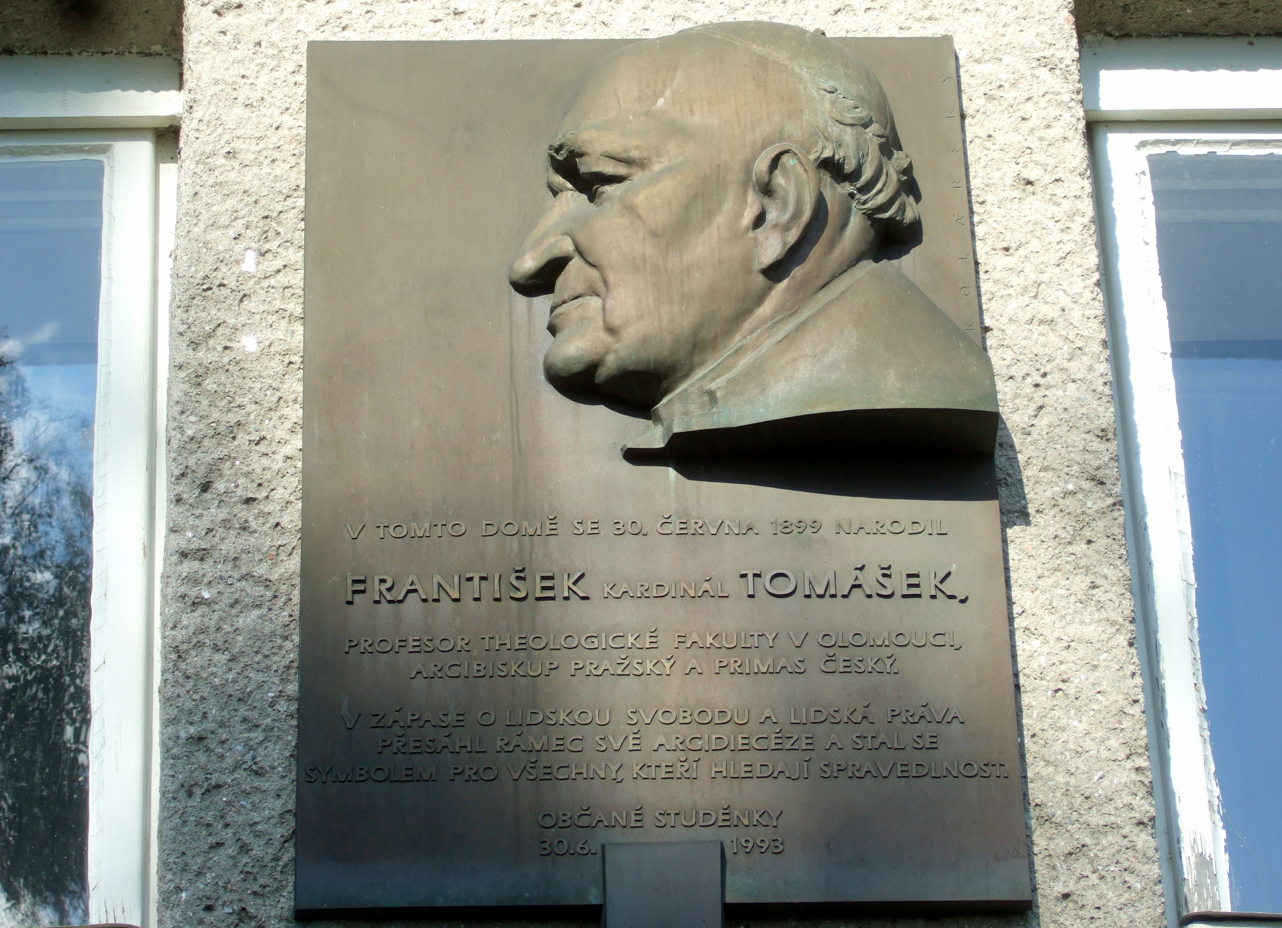 Studénka, Cardinal František Tomášel memorial plaque on Družstevní elementary school. Made by Zdeněk Kolářský.